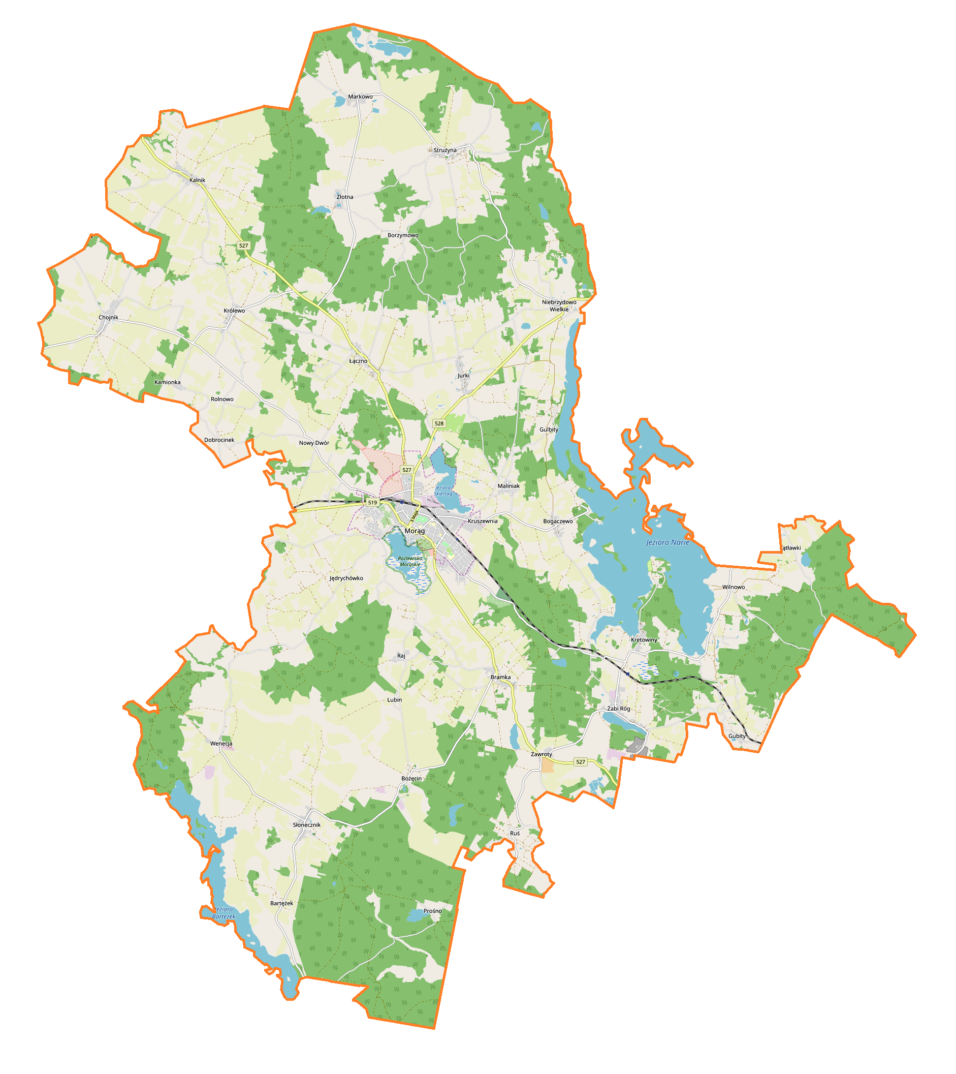 Location map